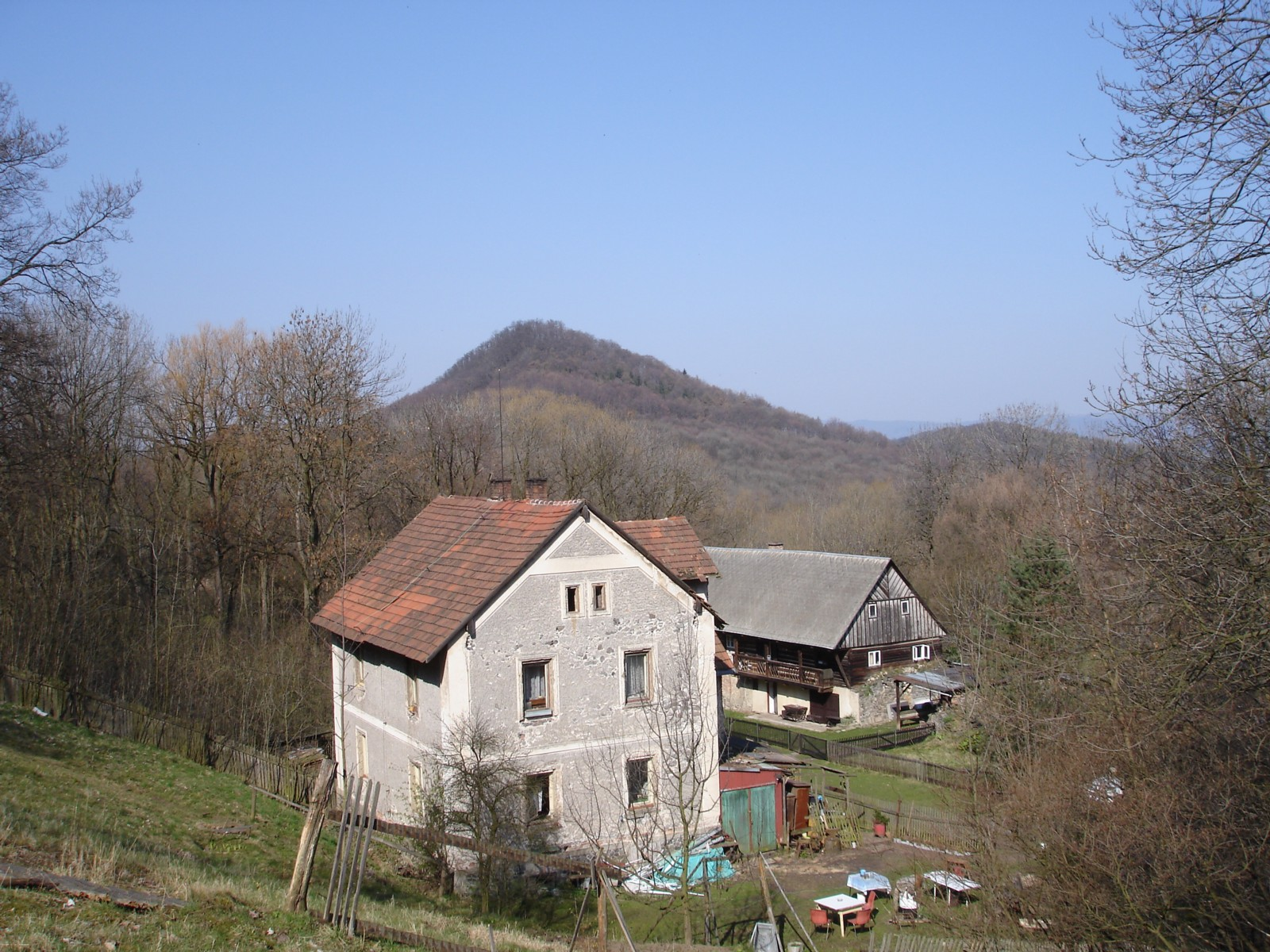 view to mountain Vysoký Ostrý in České středohoří, Czech Republic